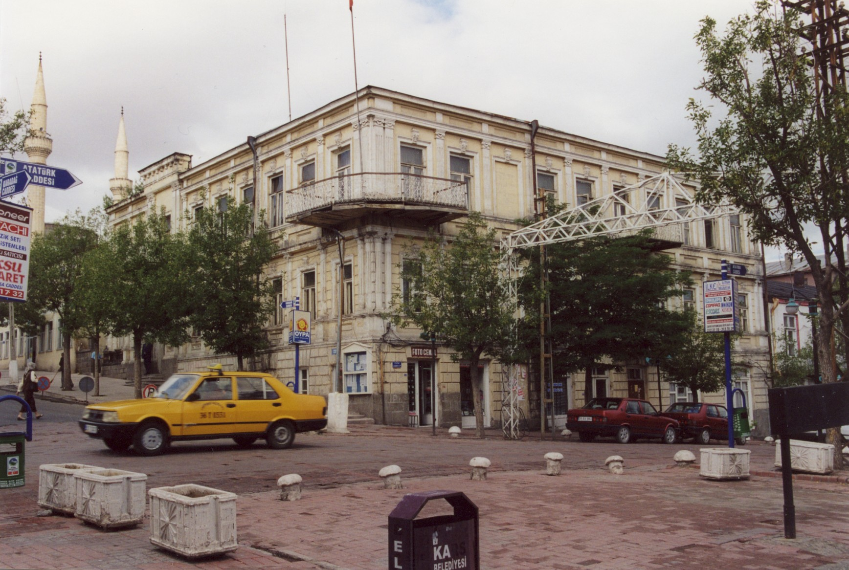 Russian architecture in Kars, Turkey. Picture taken by Christian Koehn (fragwürdig), August 2001.